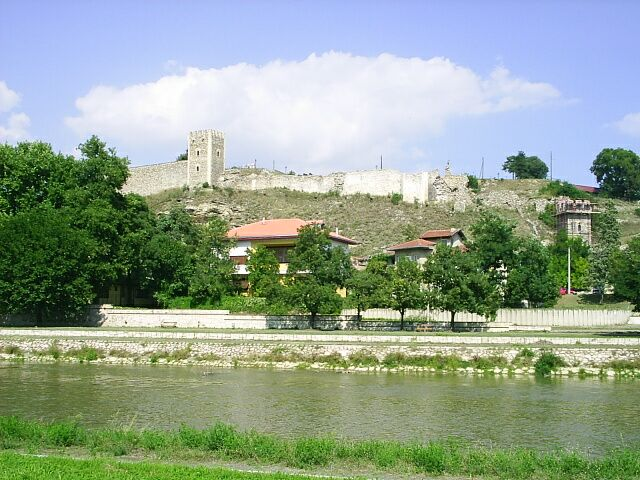 Skopje, capital of the Republic of Macedonia